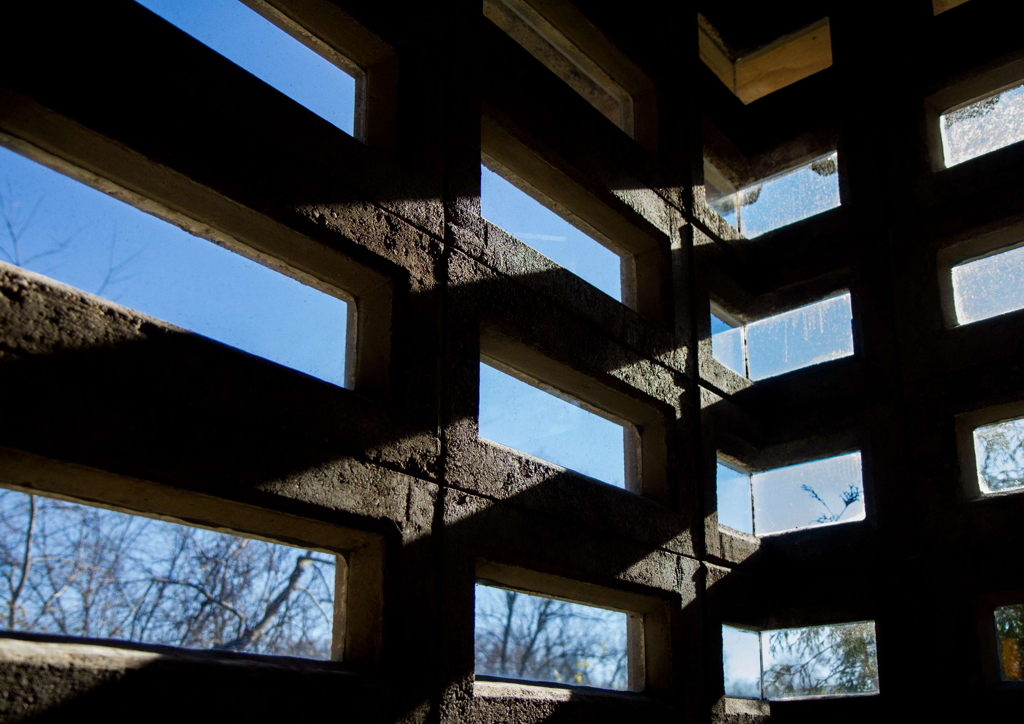 Example of windows set into precast blocks in the Tonkens House. Photo courtesy of Toby Oliver